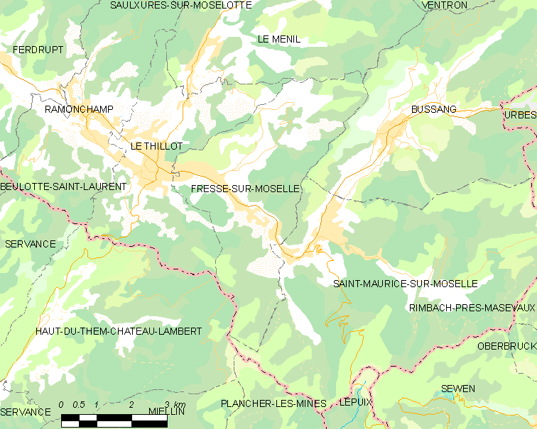 Map of French municipality Fresse-sur-Moselle